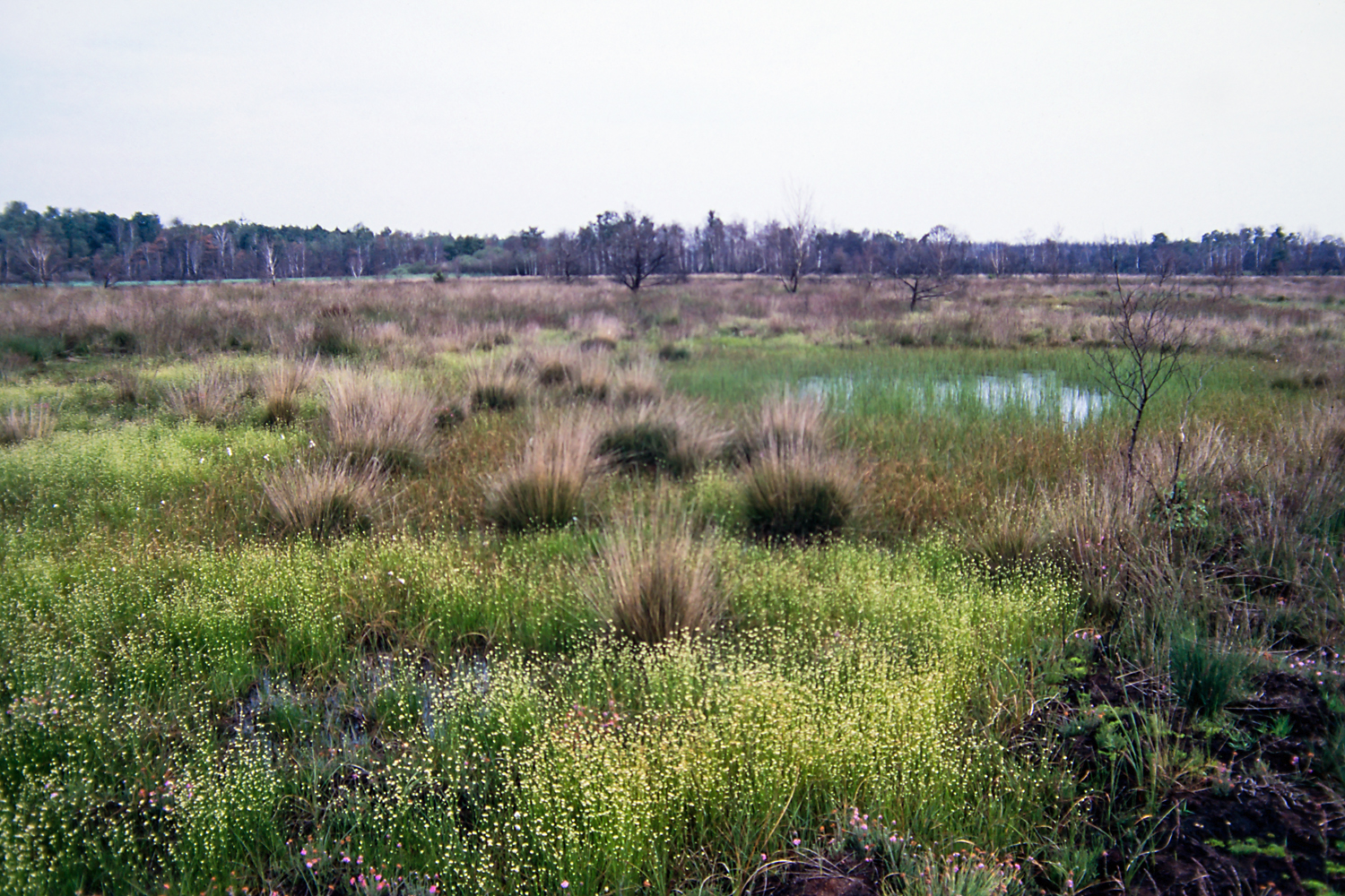 Bog and nature reserve "Gildehauser Venn", district Grafschaft Bentheim, south-western Lower Saxony, Germany.